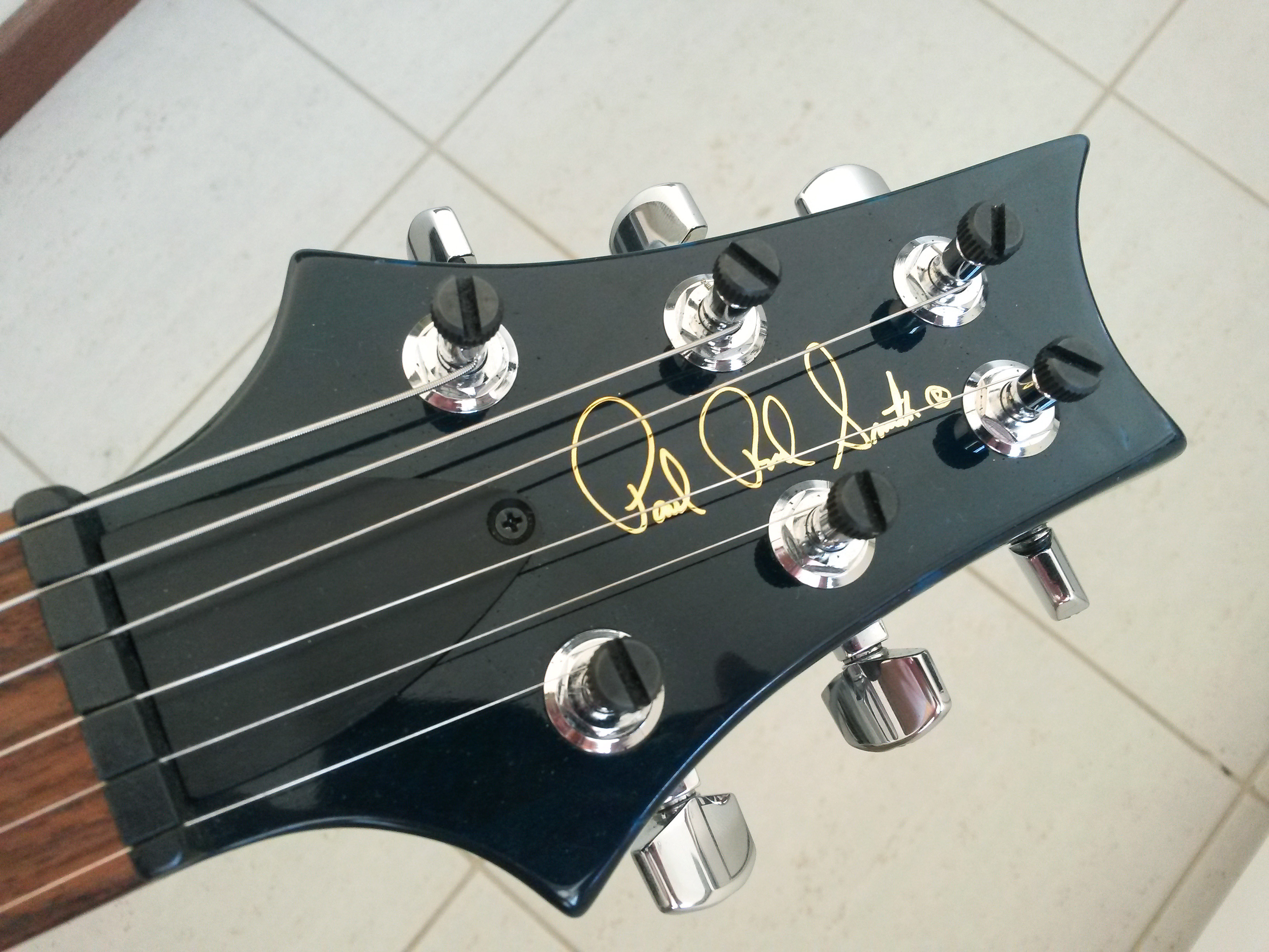 Headstock of PRS Custom 24 guitar, teal black color, year 2004.